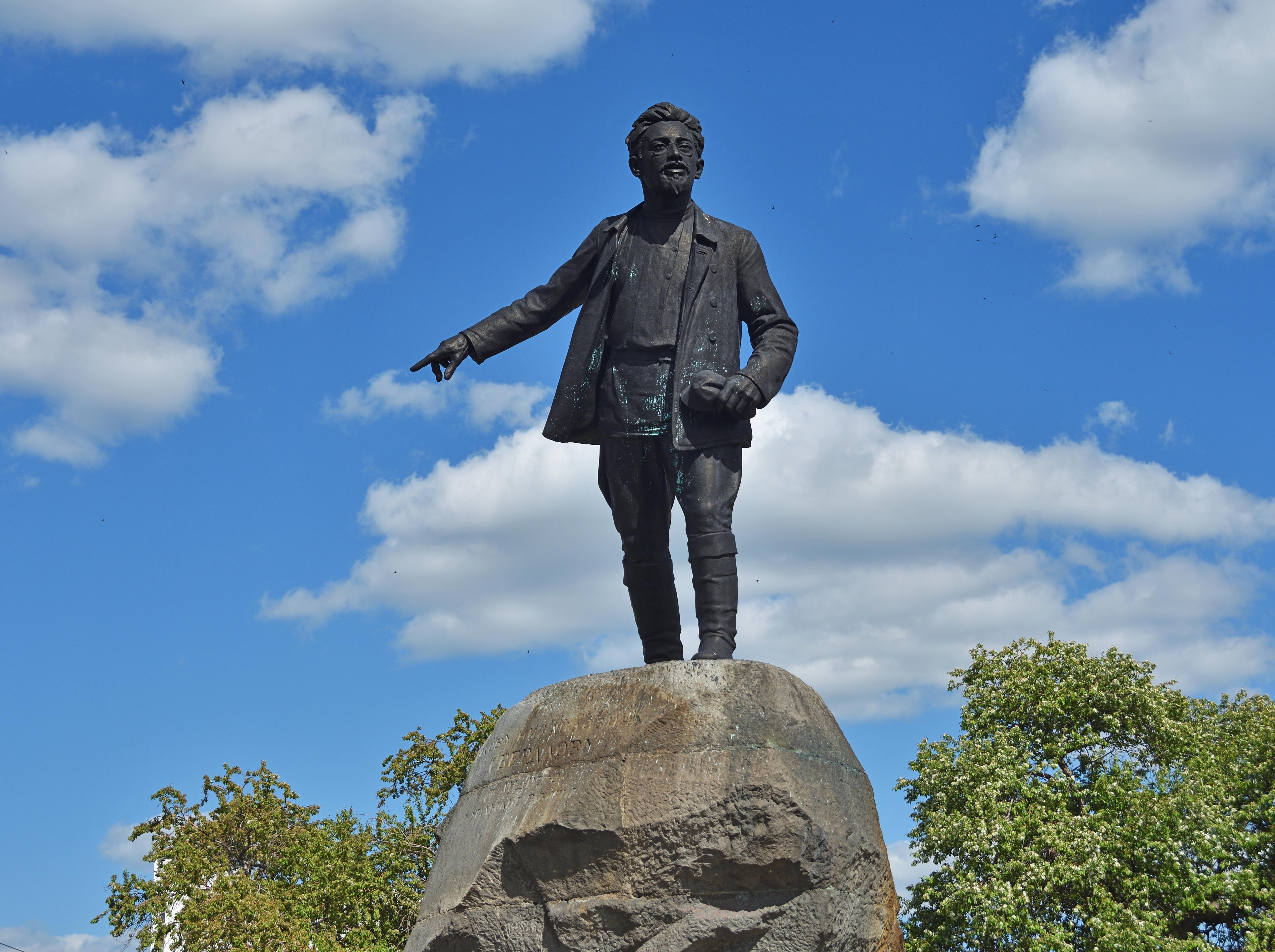 Monument to Yakov Sverdlov, Yekaterinburg